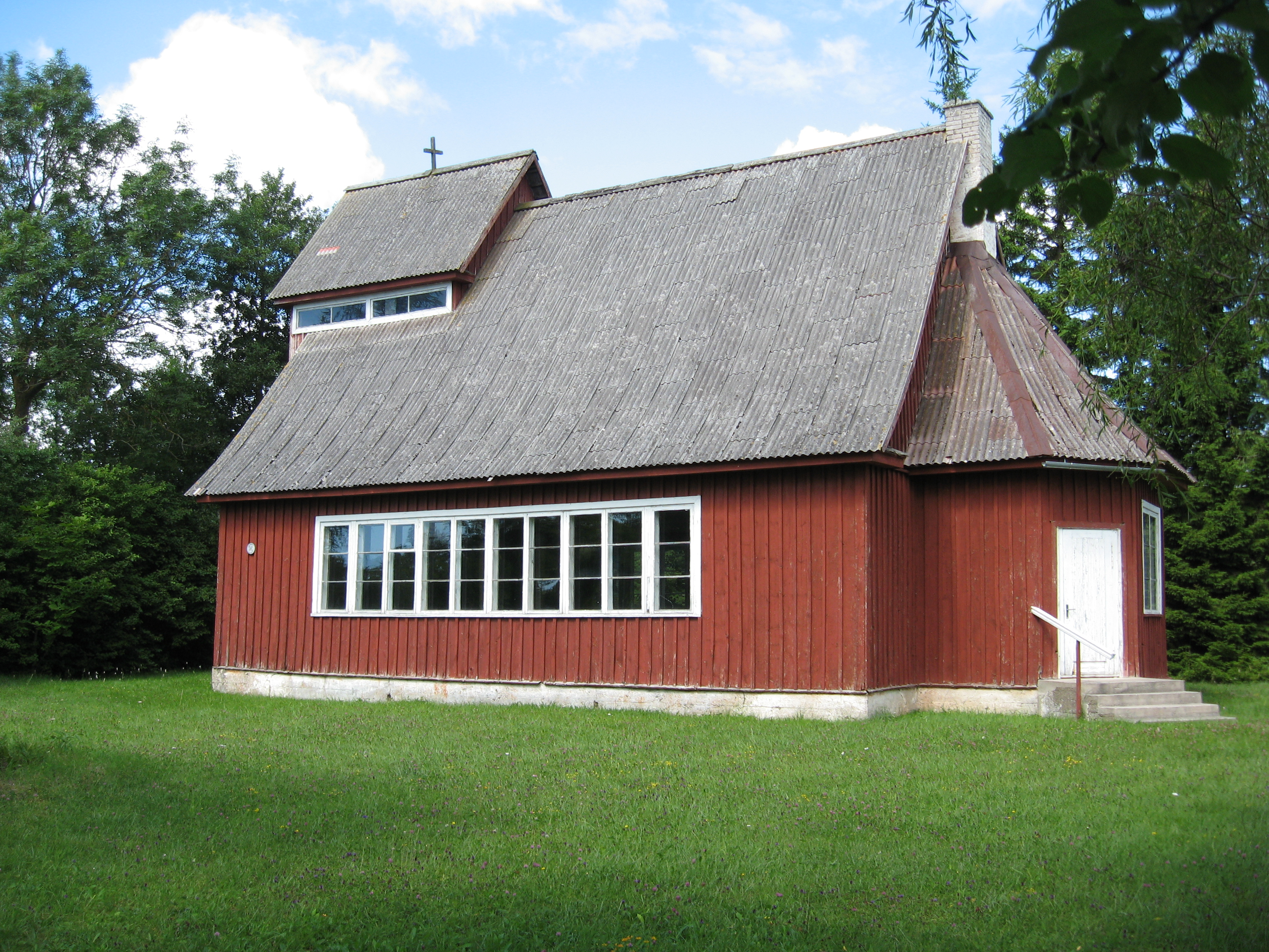 Tiirimetsa prayer house. Built in 1935, unknown architect